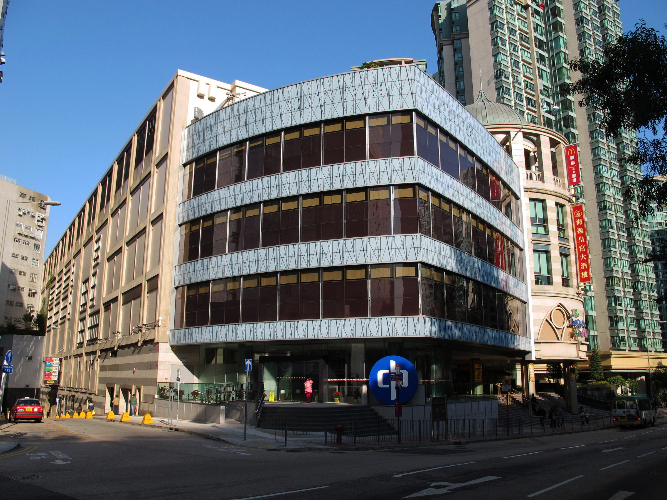 Fisherman's Wharf Shopping Arcade Exterior